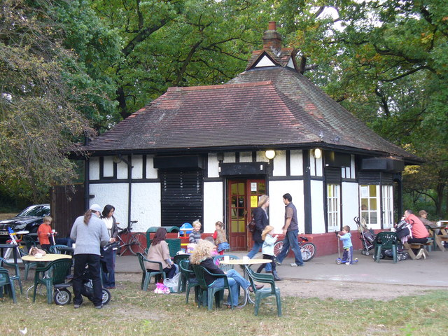 Tooting Bec Common Cafe Mock Tudor kiosk just off Bedford Hill offers refreshments to the many visitors of this South London open area. An October afternoon is still warm enough for eating al fresco.